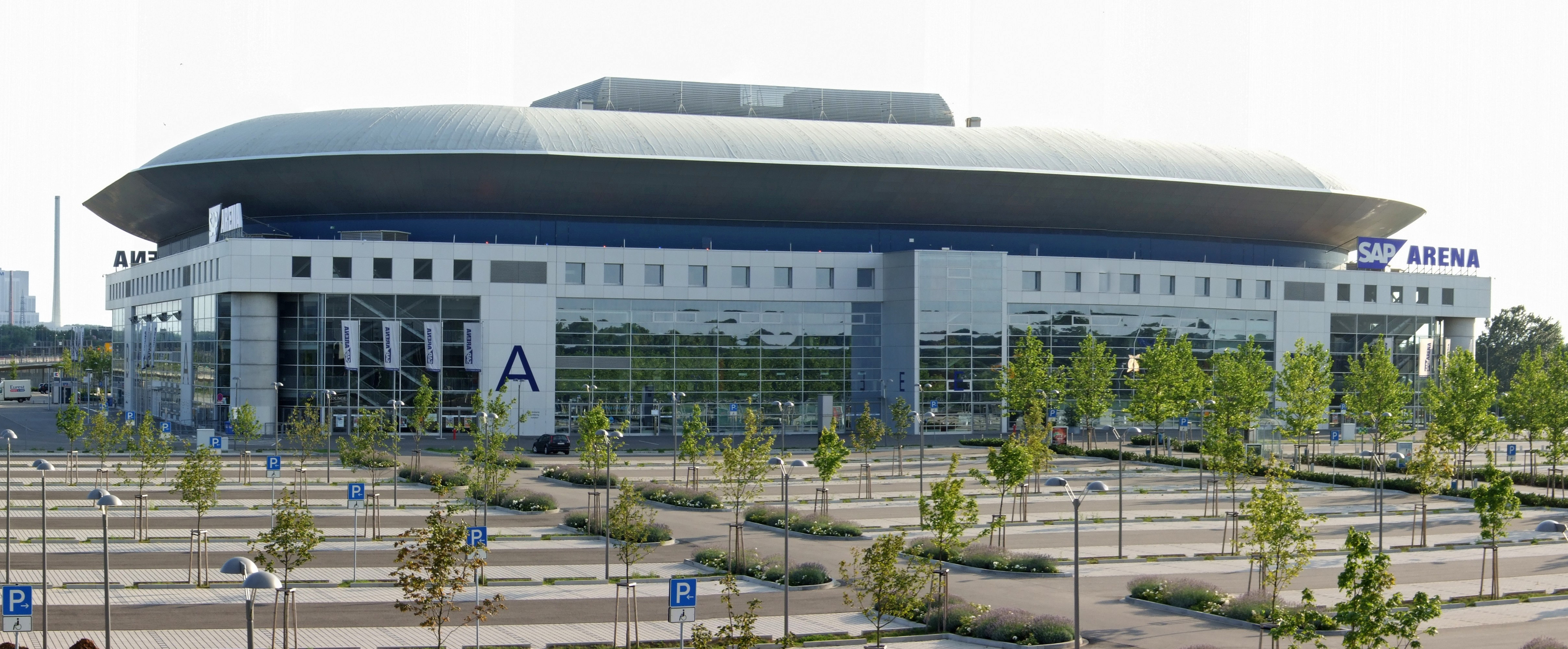 SAP-Arena, Mannheim, Germany, North, panorama, 5 pictures stitched